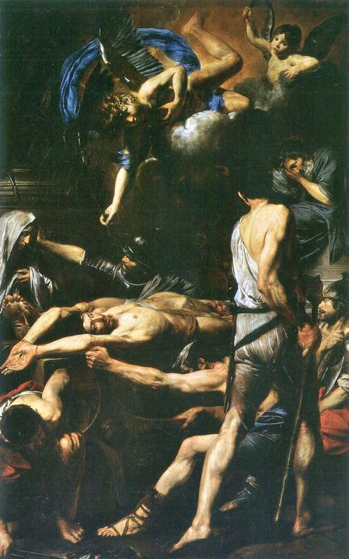 Martyrium der römischen Heiligen Processus und Martinianus, von Valentin de Boulogne (1591-1632)